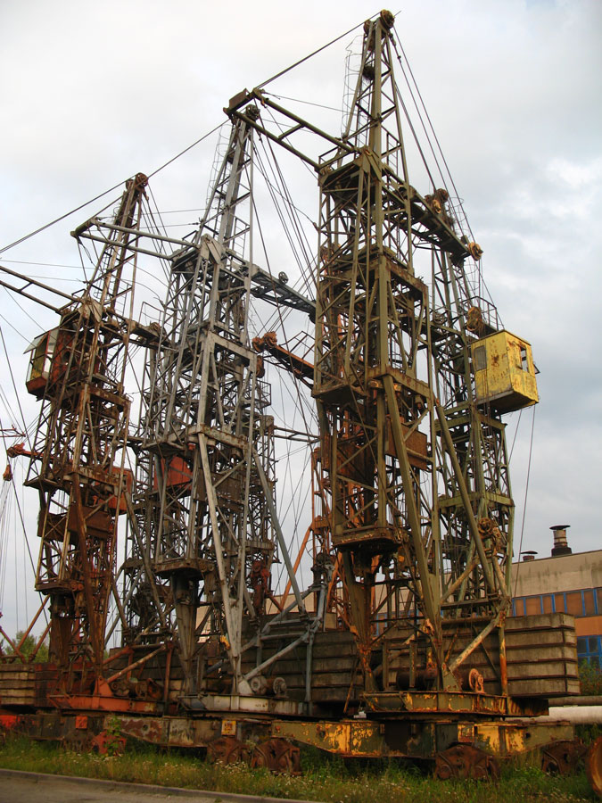 Old crane towers in Minsk.